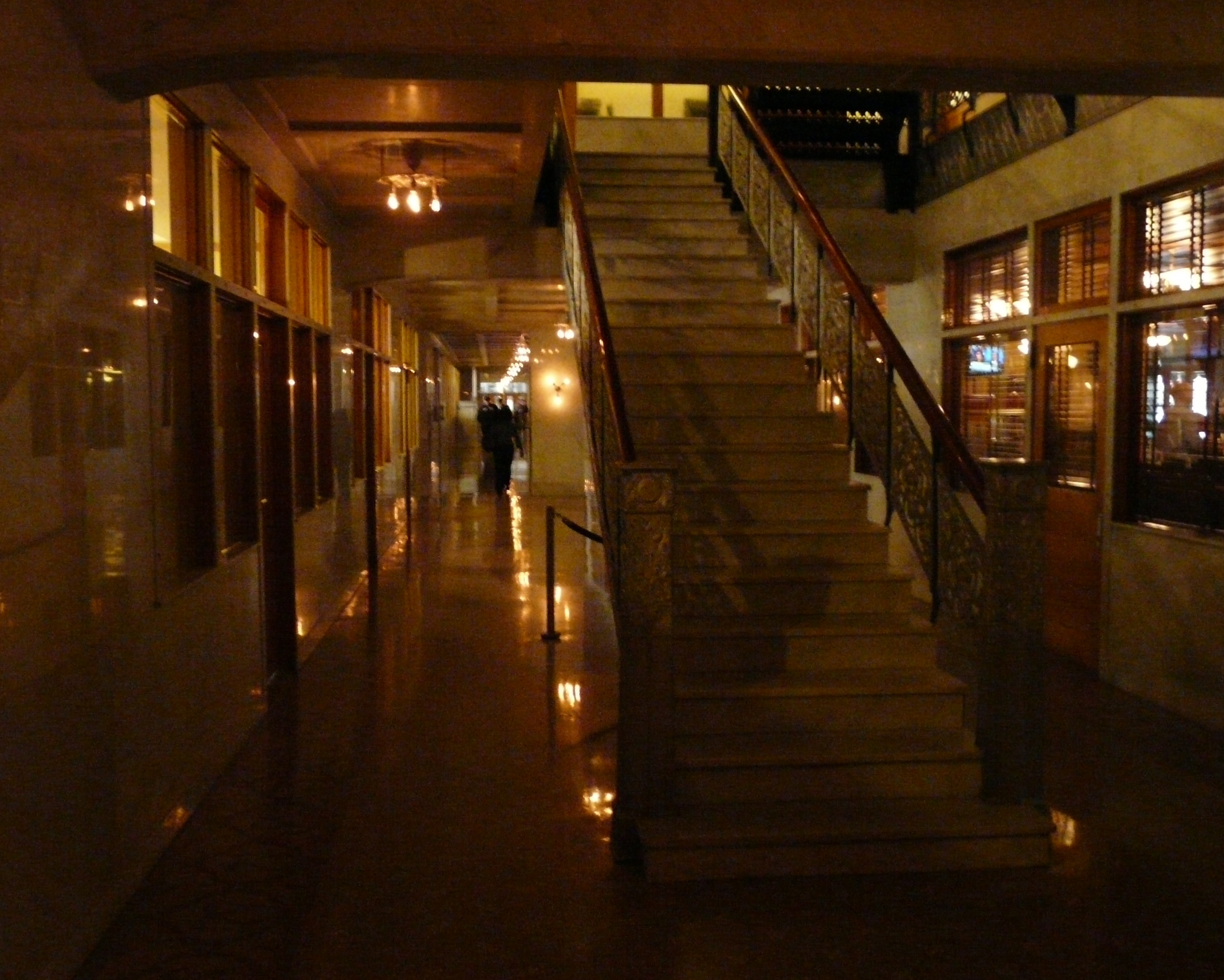 Monadnock Building|Monadnock Building , 53 West Jackson Boulevard, Chicago, Cook County, IL. Lobby of the building, from north entrance facing south.